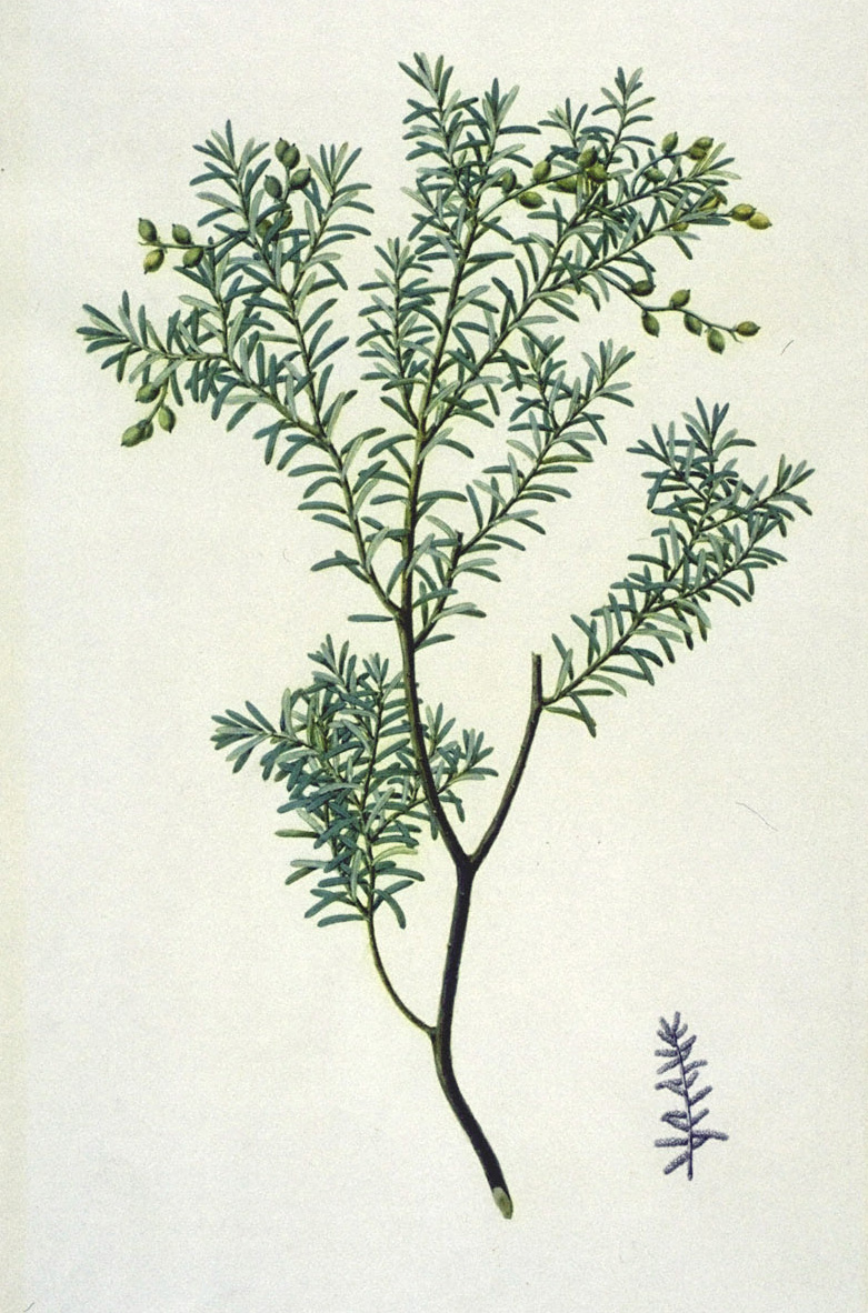 Mataī, Prumnopitys taxifolia, Podocarpaceae. New Zealand